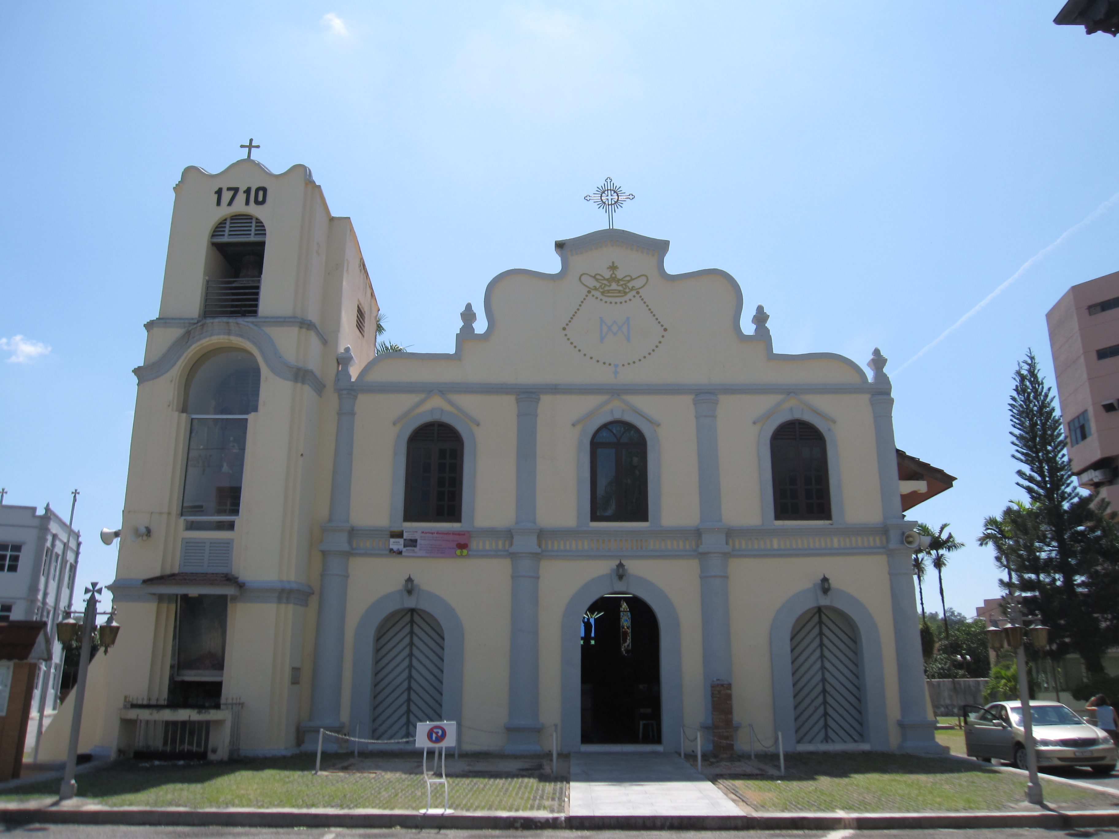 The Catholic St. Peter's church in Melaka, Malaysia.